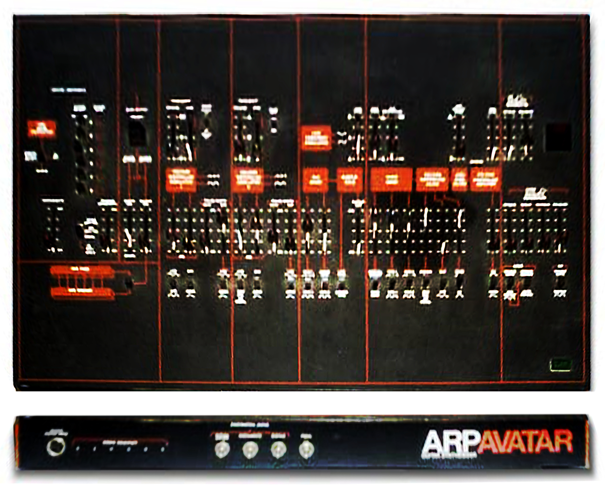 ARP Avatar guitar synthesizer, top & front panel